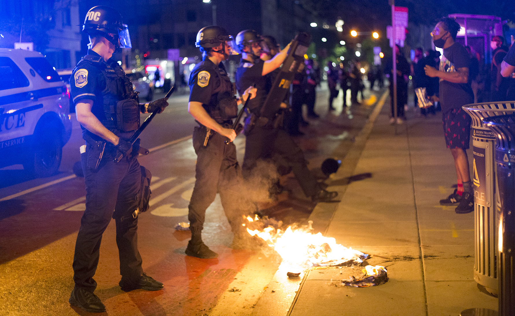 DC George Floyd Protest (II)